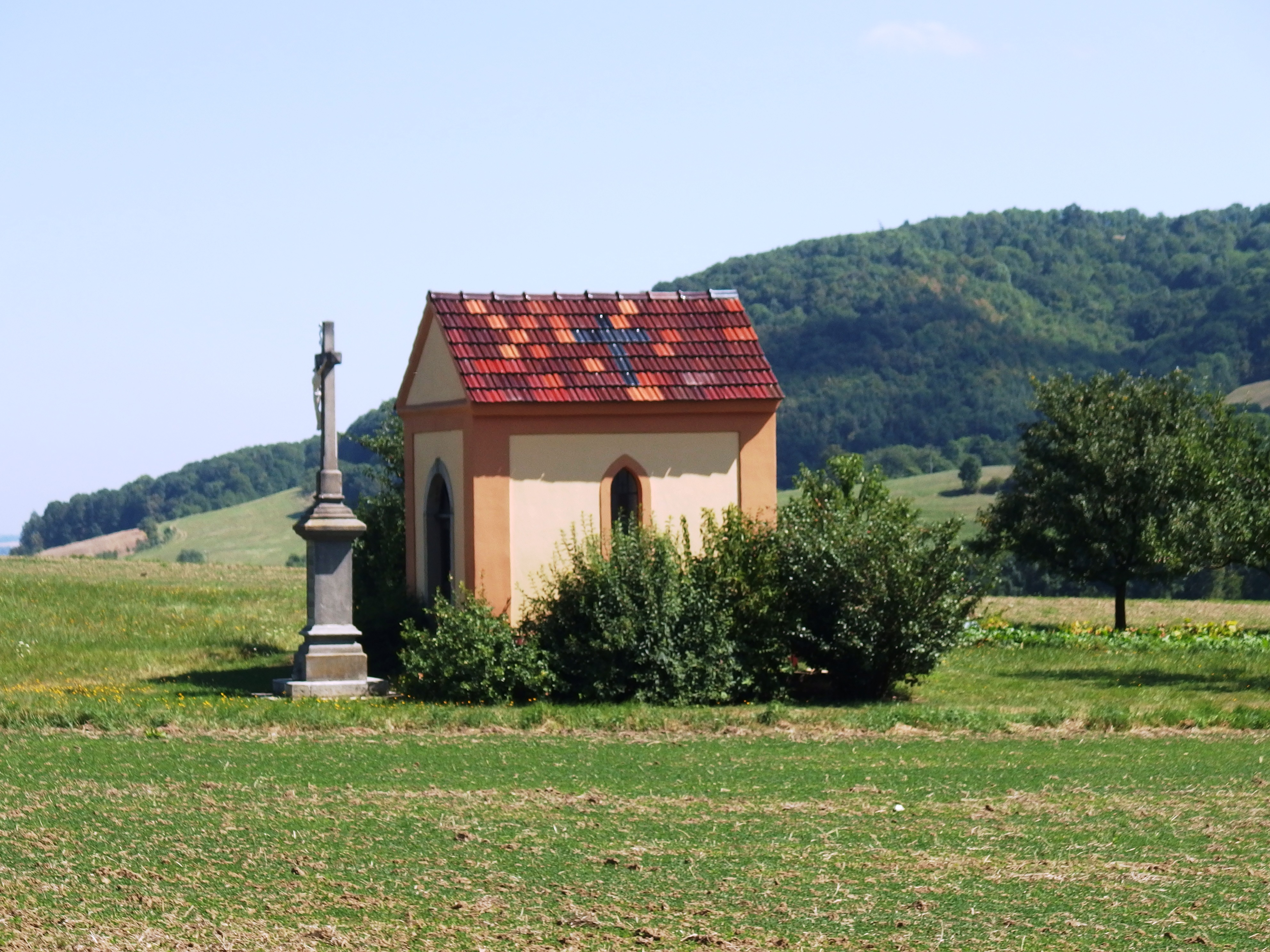 Starý Jičín, Nový Jičín District, Czech Republic, part Janovice.